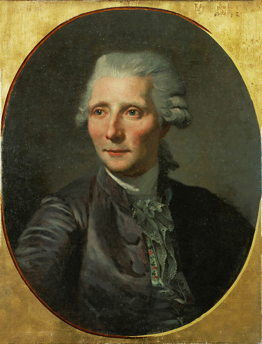 Portrait of an unknown man, formerly identified as Pierre Augustin Caron de Beaumarchais (1732-1799)